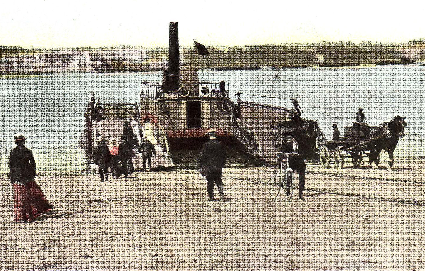 Torpoint Ferry across the River Tamar, England, in 1894 looking west